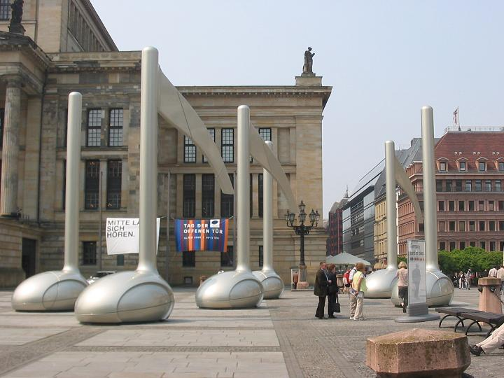 „Masterworks of Music“, fifth sculpture (from six) of the Berliner Walk of Ideas on the occasion of 2006 FIFA World Cup Germany. The notes symbolise Germany as a nation of music with famous composers and interpreters. Unveiling: 5 May 2006 on Gendarmenmarkt. With Konzerthaus by Schinkel in the background